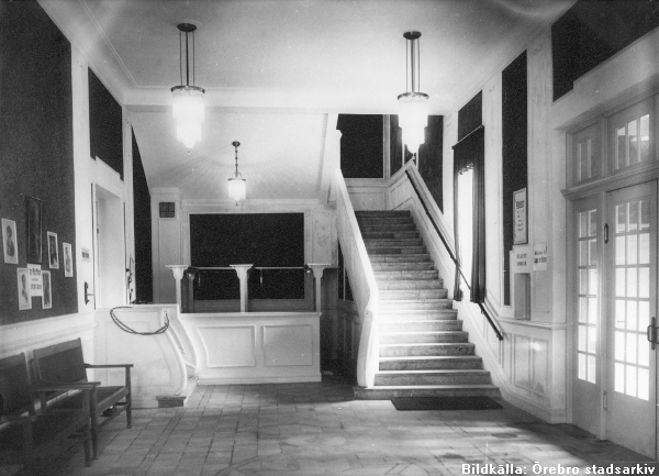 The old cinema "Röda Kvarn", Örebro, Sweden